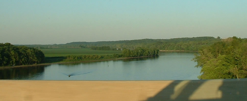 Looking east over the Illinois River on the Abraham Lincoln Memorial Bridge.